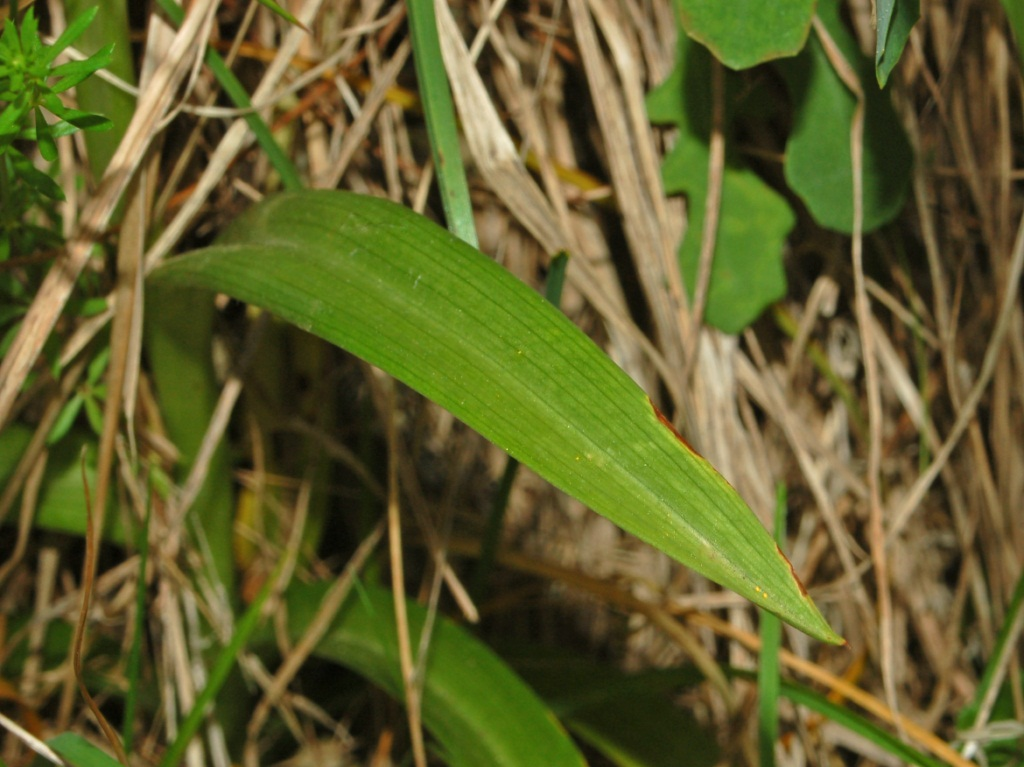 Anacamptis pyramidalis - Genova, Italy